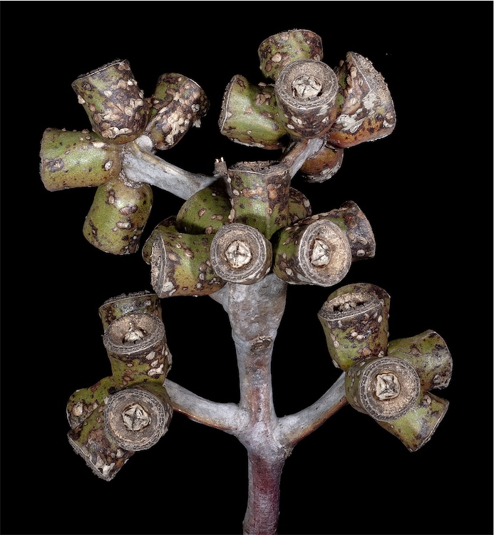 Fruit of Eucalyptus stricklandii near the Diemals-Menzies Road, about 40km east of the Mt. Elvire turnoff, Western Australia